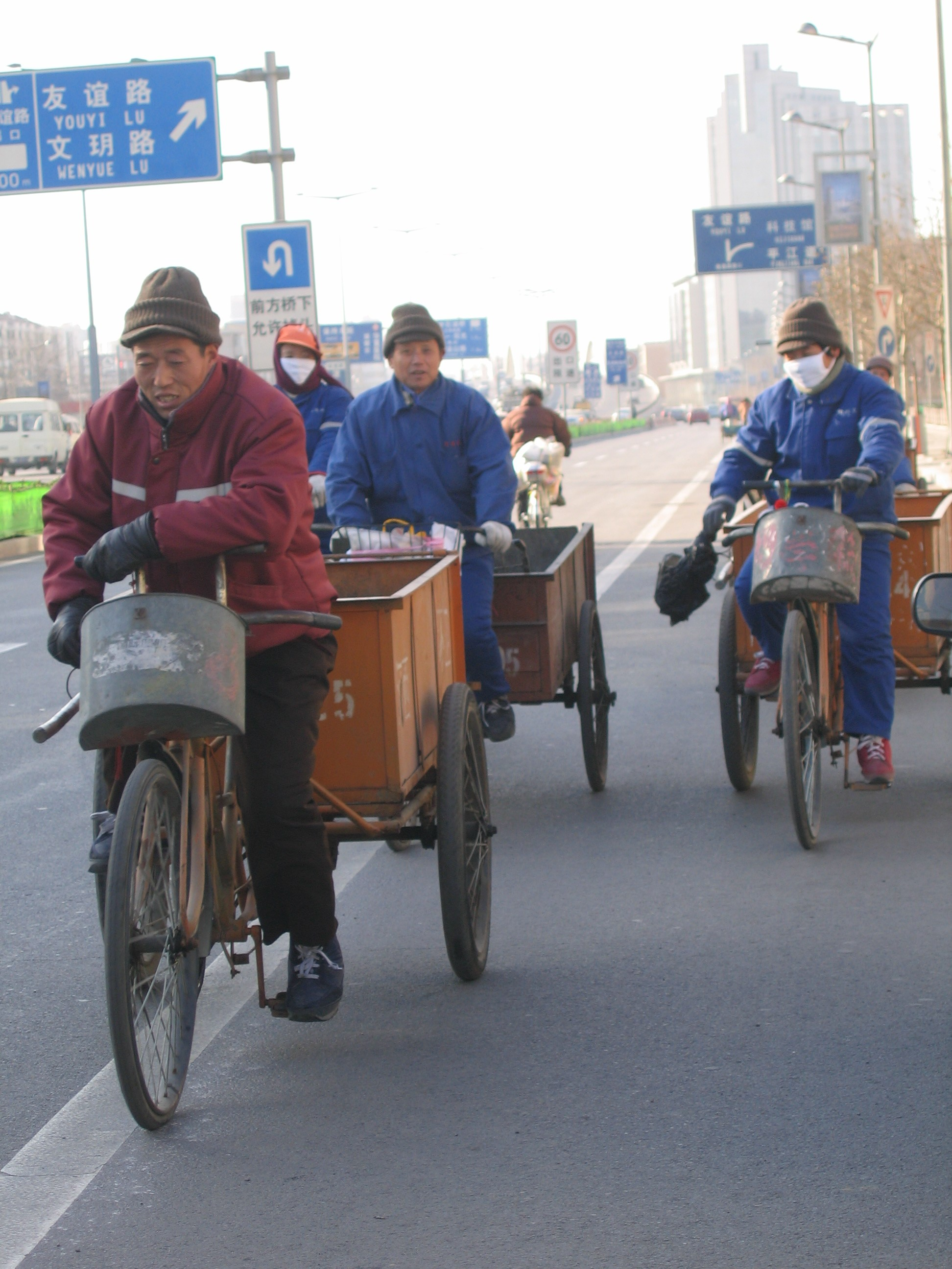 Tianjin China Municipal street sweeping tricycles